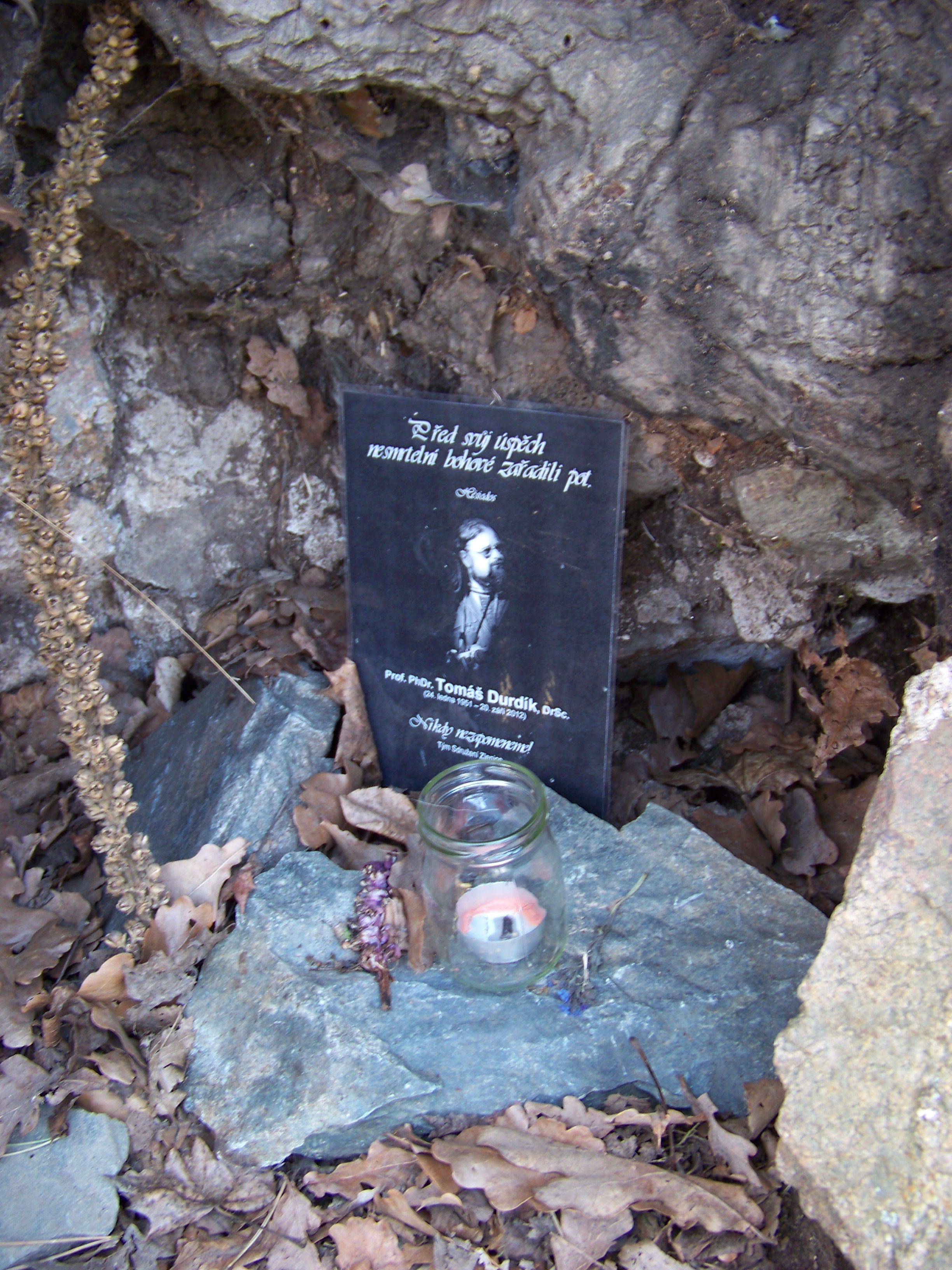 Senohraby, Prague-East District, Central Bohemian Region, the Czech Republic. A ruin of the castle Zlenice (Hláska). A plaque.